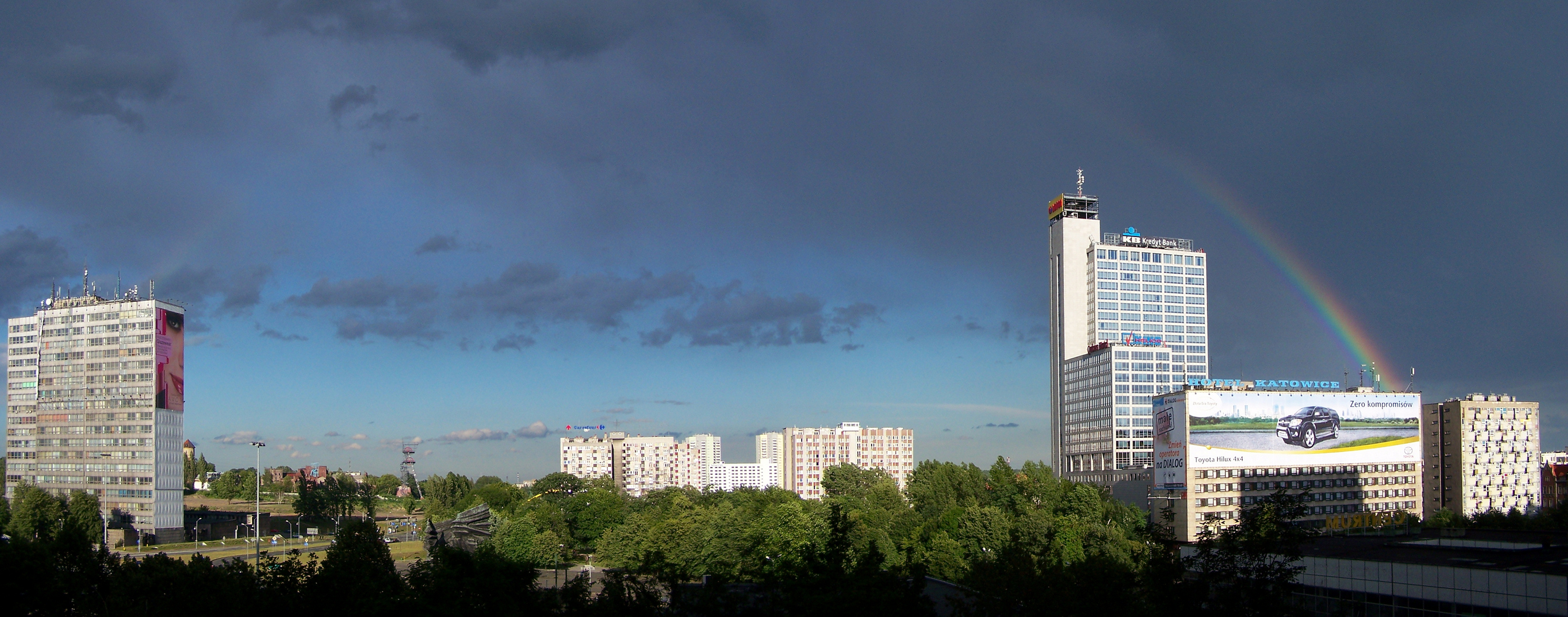 Panorama of Katowice (Poland).